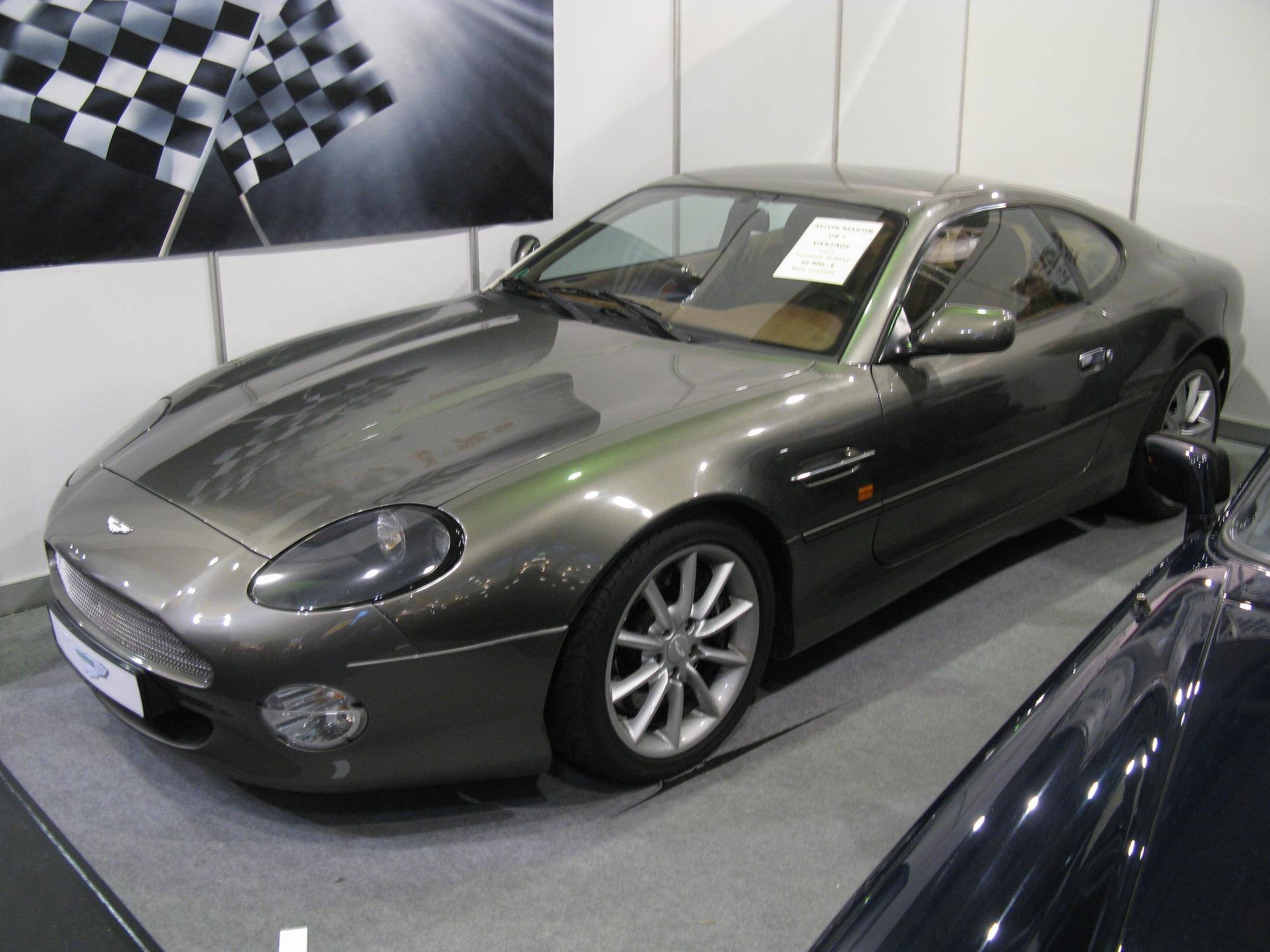 Aston Martin DB7